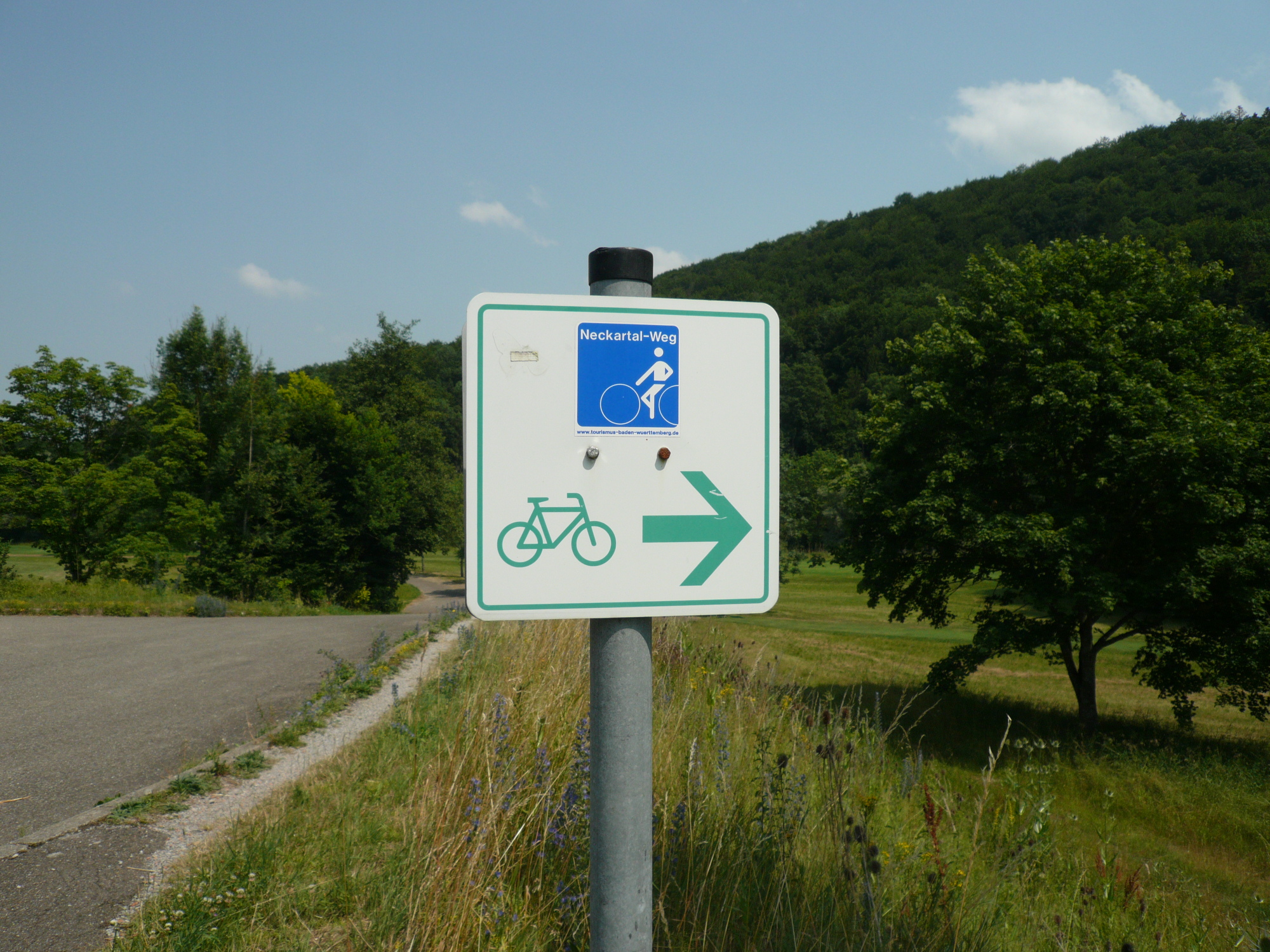 Bicycle route Neckartal-Weg, sign